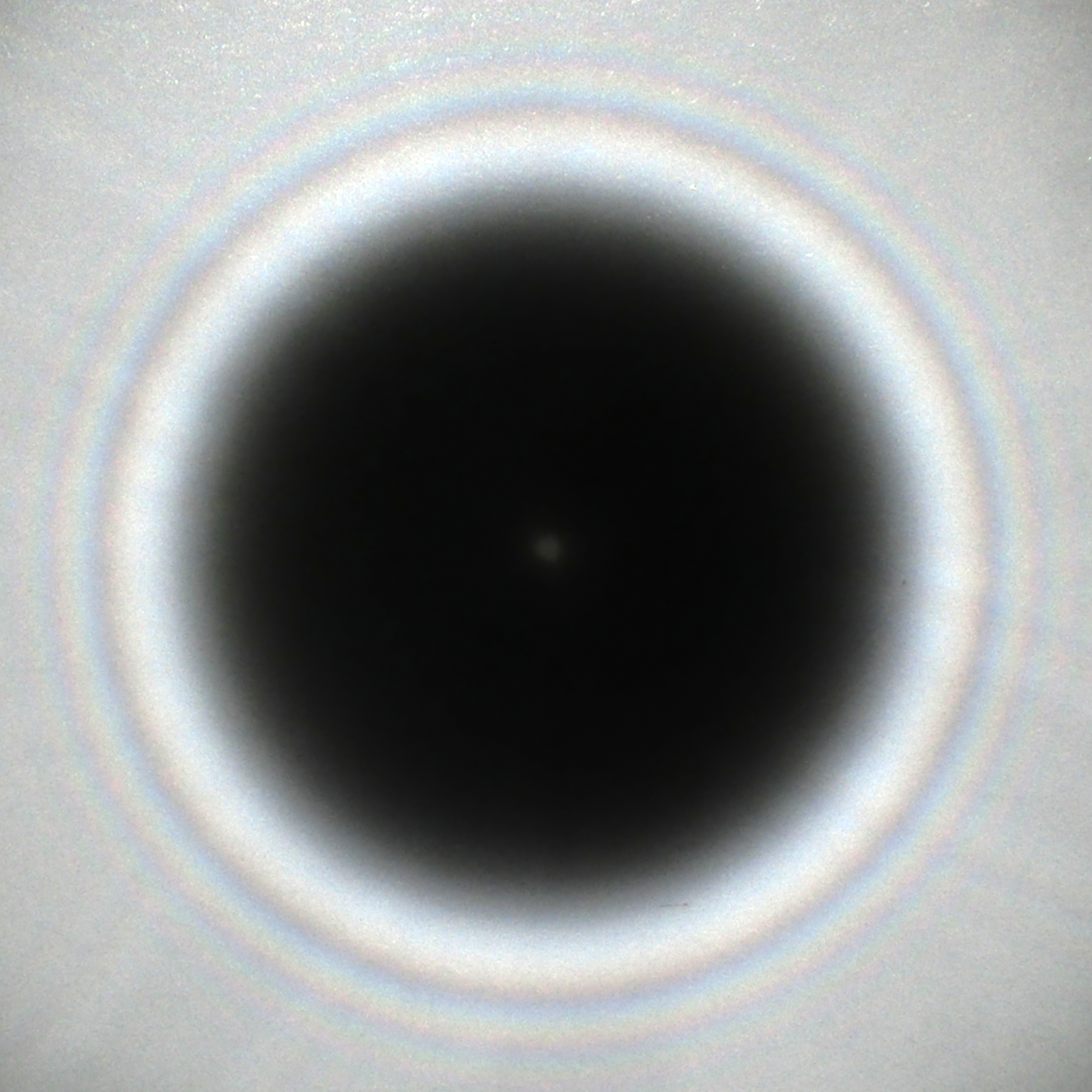 The shadow of a circular obstacle (5.8 mm) in diameter lit by a ~0.5 mm sunlight source, exposing the Arago spot in the middle of a shadow. Distance from the light source to the obstacle 5 ft (~153 cm), distance from the obstacle to the paper screen 6 ft (~183 cm).